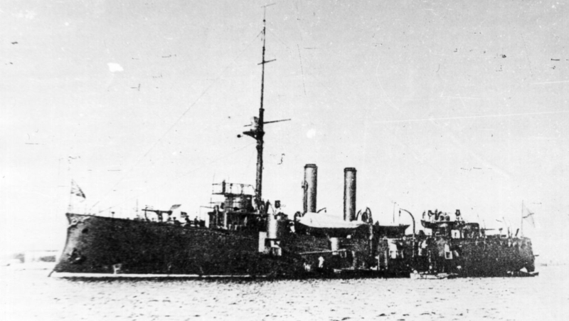 Канонерская лодка «Хивинец»